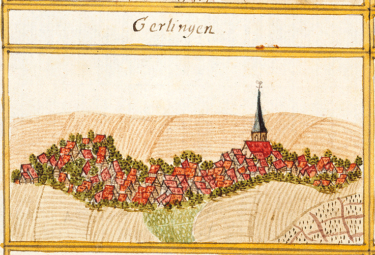 View of Gerlingen from the forest register books created by Andreas Kieser